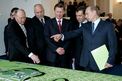 ZHUKOVSKY, MOSCOW REGION. At the Mikhail Gromov Flight Research Institute. From left to right: President of OAO United Aircraft Corporation (UAC) Alexei Fyodorov, General Director of Rostekhnologii State Corporation Sergei Chemezov, First Deputy Prime Minister Sergei Ivanov and First Deputy Prime Minister Dmitry Medvedev.